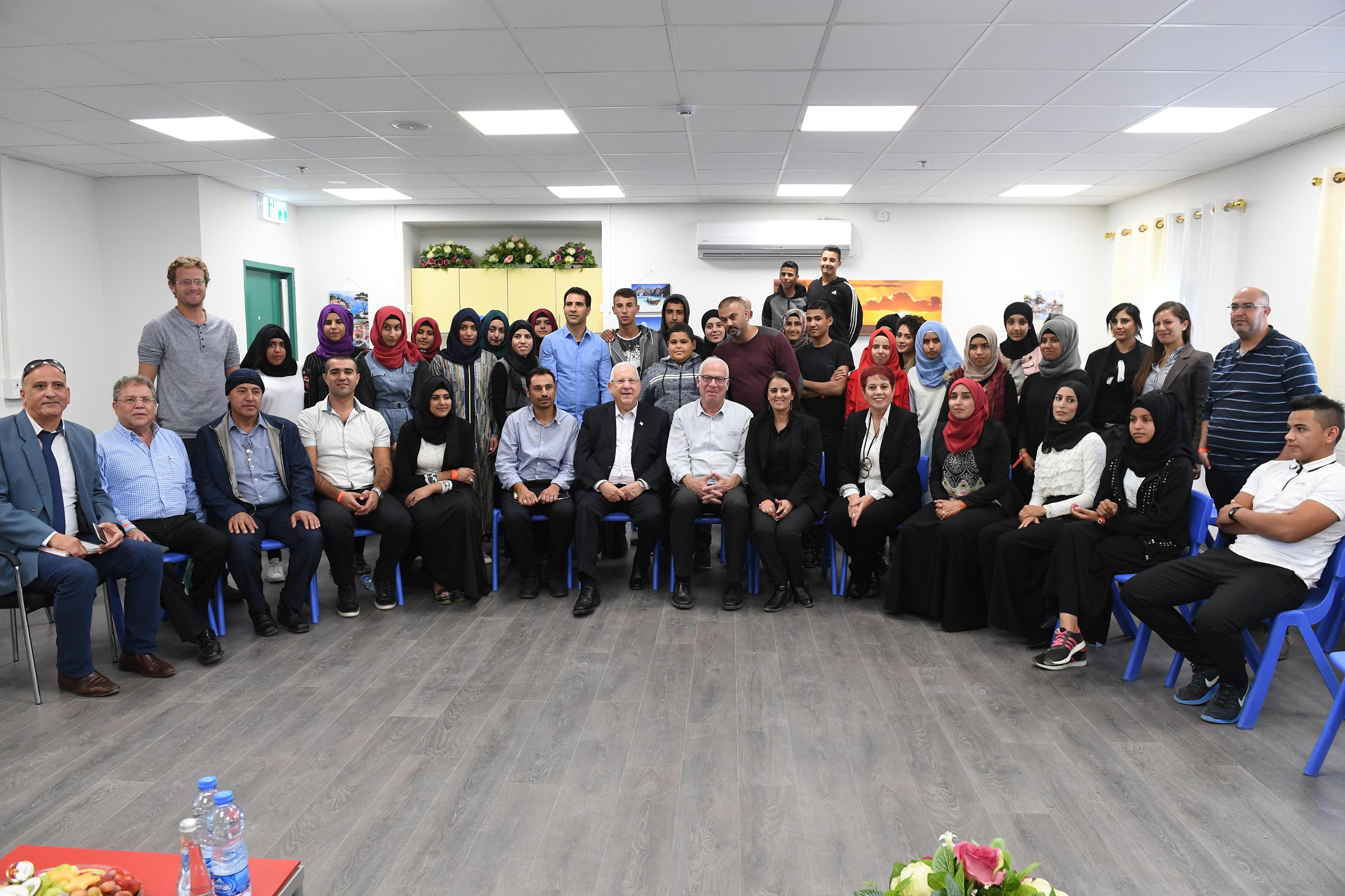 President of the State of Israel, Reuven Rivlin, and Minister of Agriculture and Rural Development, and the Director of Bedouin Development and Settlement, Uri Ariel, touring a school for the Bedouin population and the Soda Stream factory Tuesday, November 28, 2017. Photo Credit: Mark Neyman / GPO.